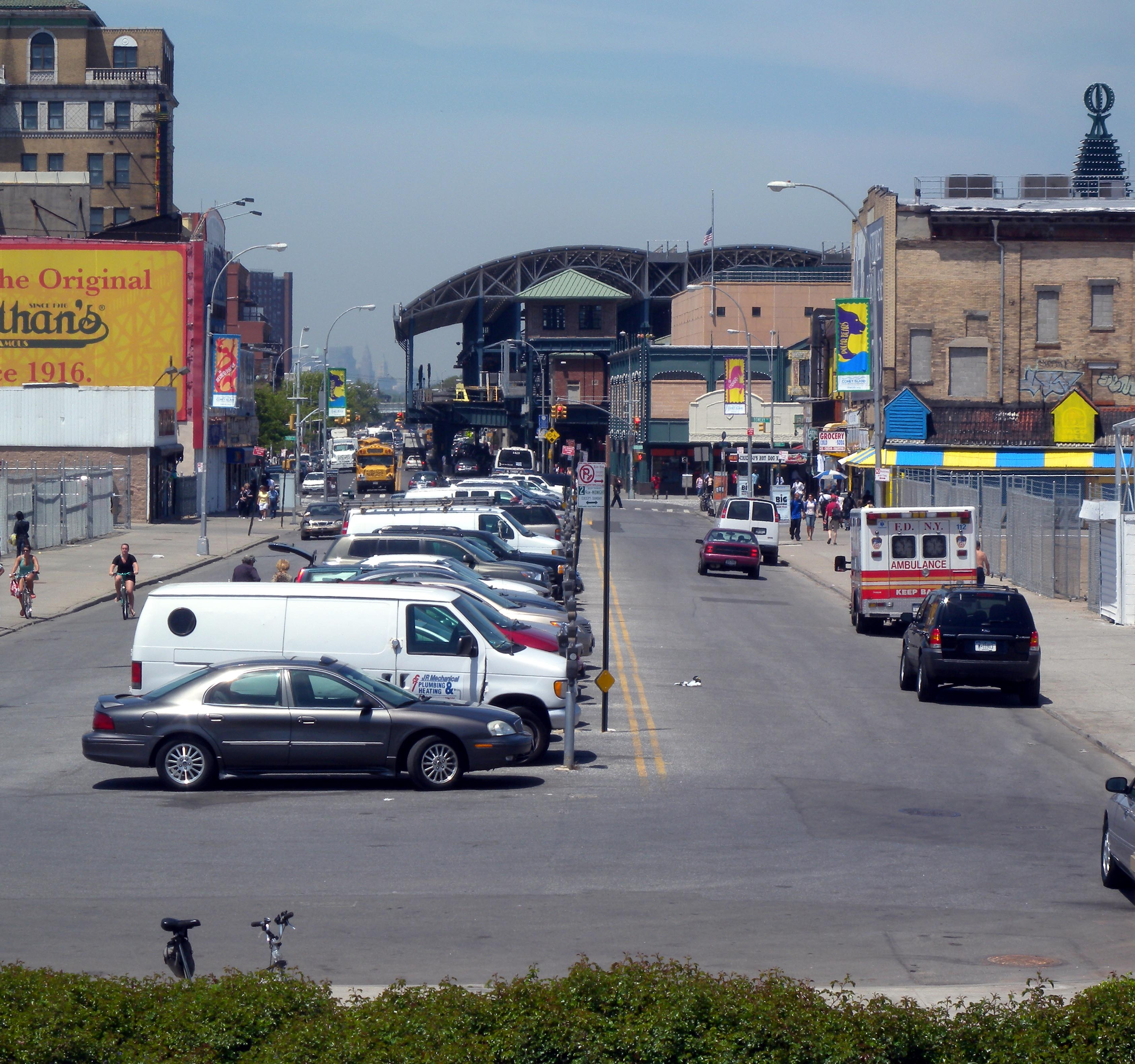 Looking north from Boardwalk at Stillwell Avenue on a sunny midday towards File:Stillwell Av Neptune jeh.jpg.